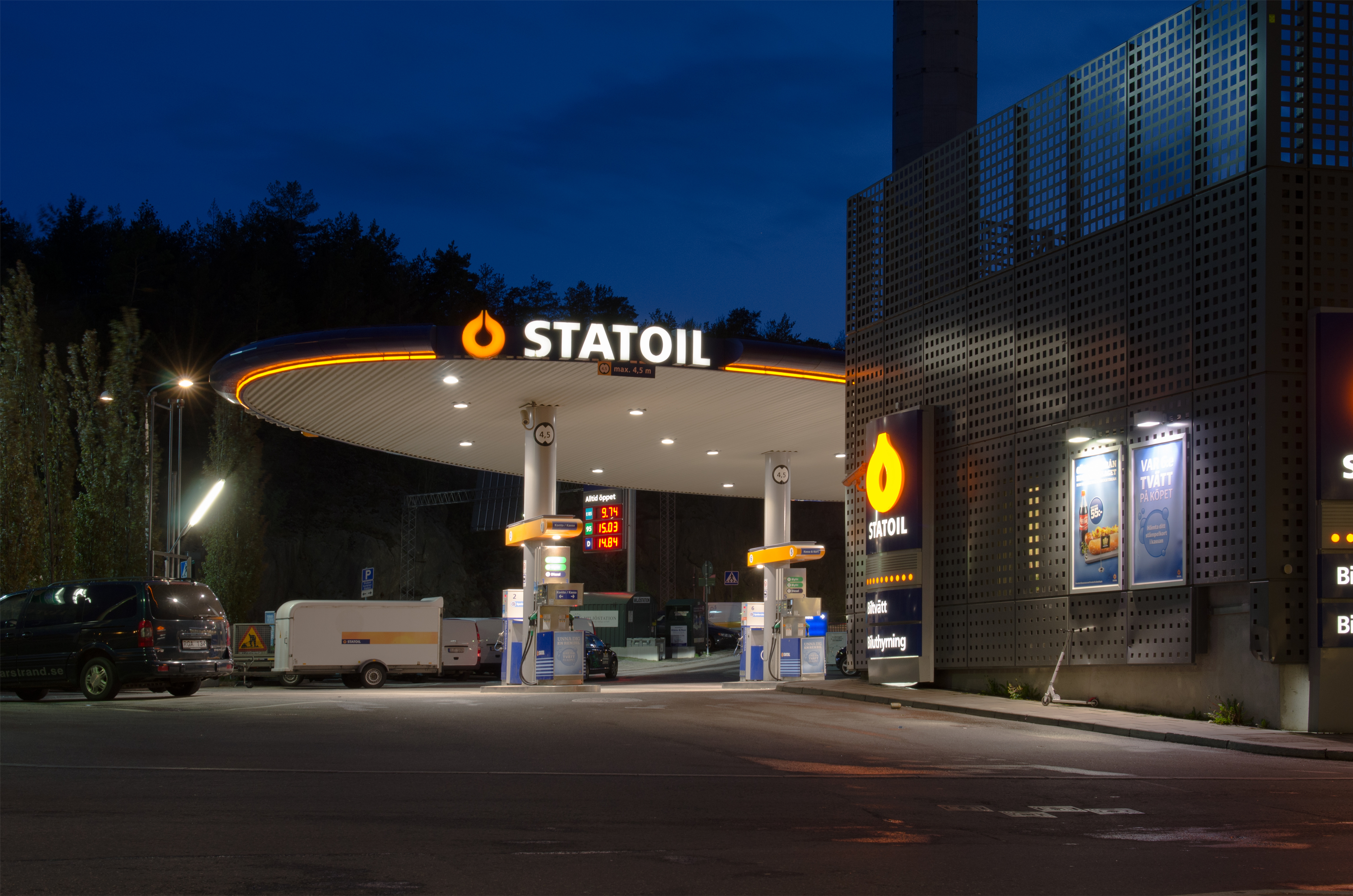 Statoil petrol station, Södra Hammarbyhamnen (Stockholm).